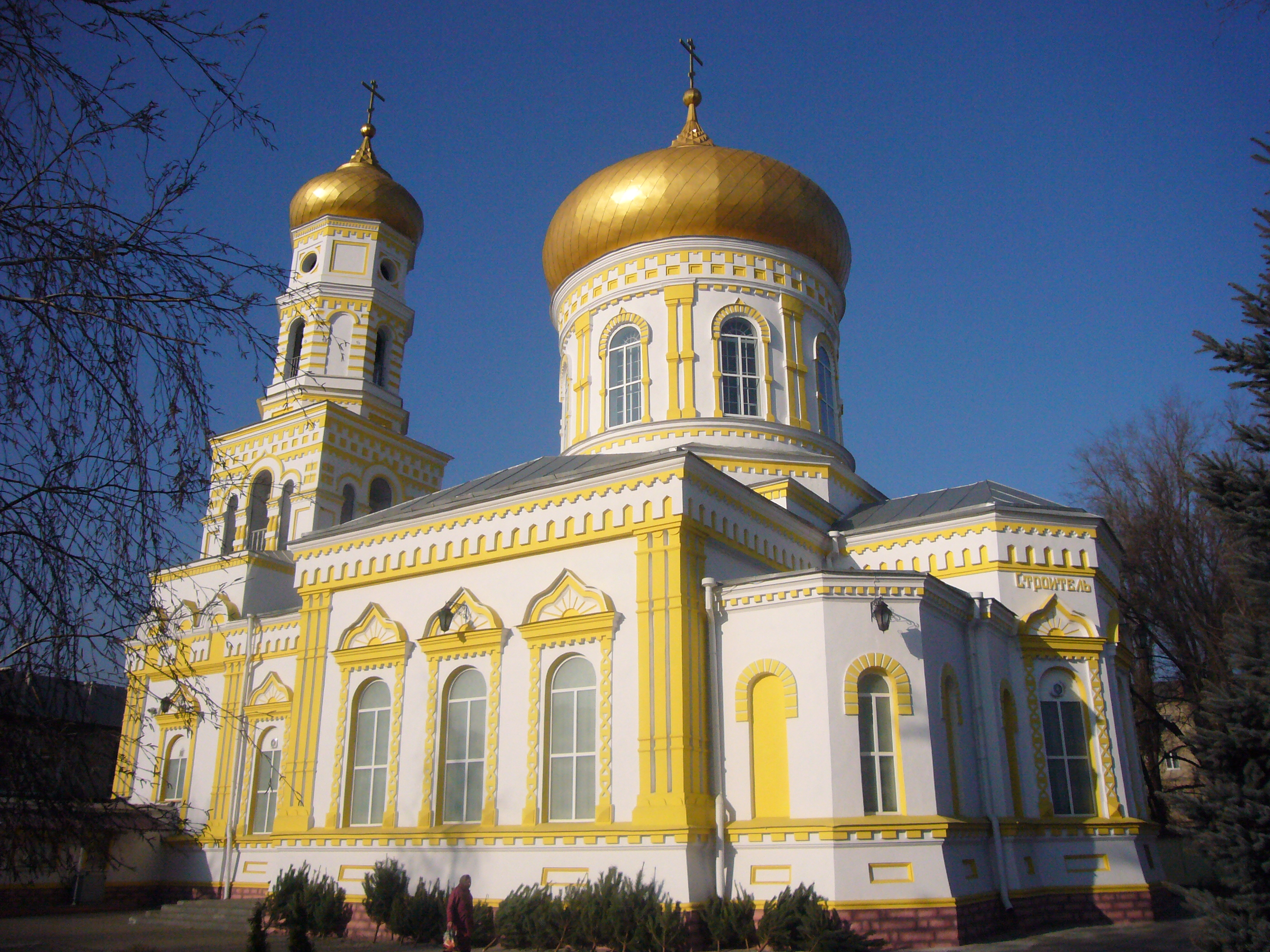 Cathedral of Vernicle, Dnipropetrovsk Eparchy of Ukrainian Orthodox Church. Built by Yakov F. Golubitsky (1815-1897). Pavlograd, Dnipropetrovsk Oblast, Ukraine.